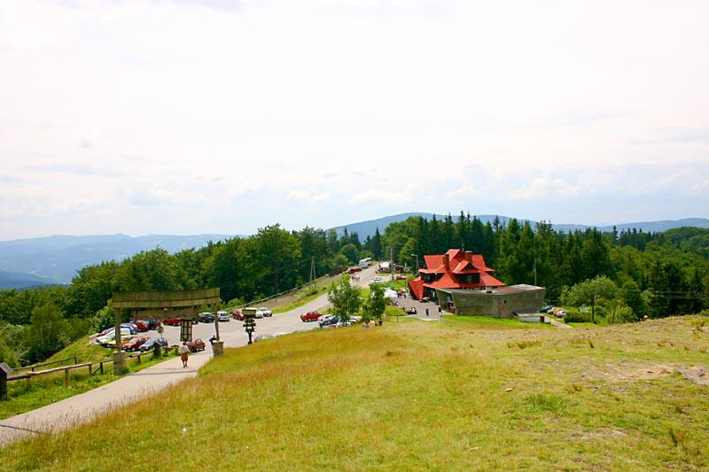 Ustron (Poland)